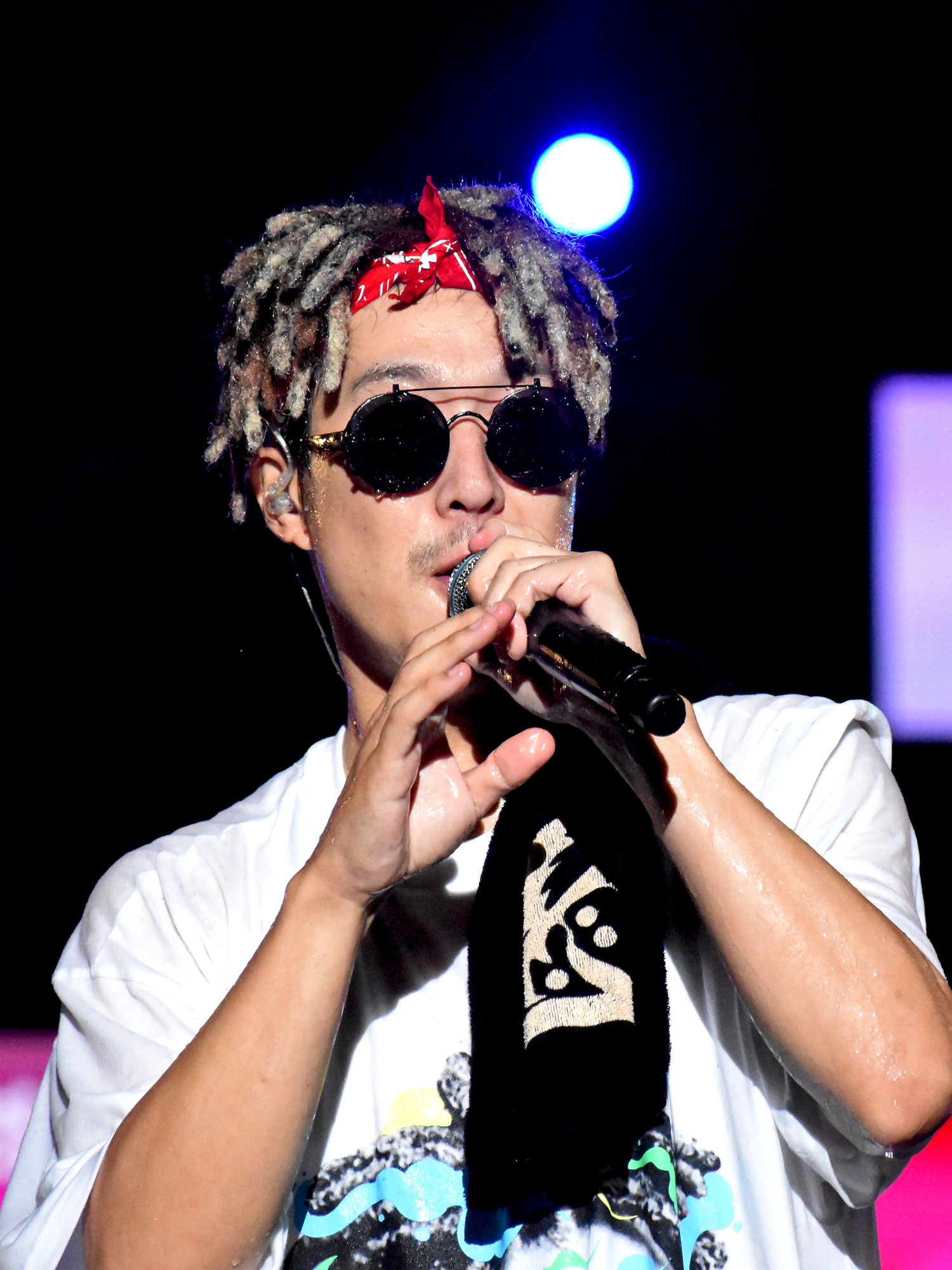 RPR at the 23rd Busan Sea Festival in Haeundae on August 2, 2018.